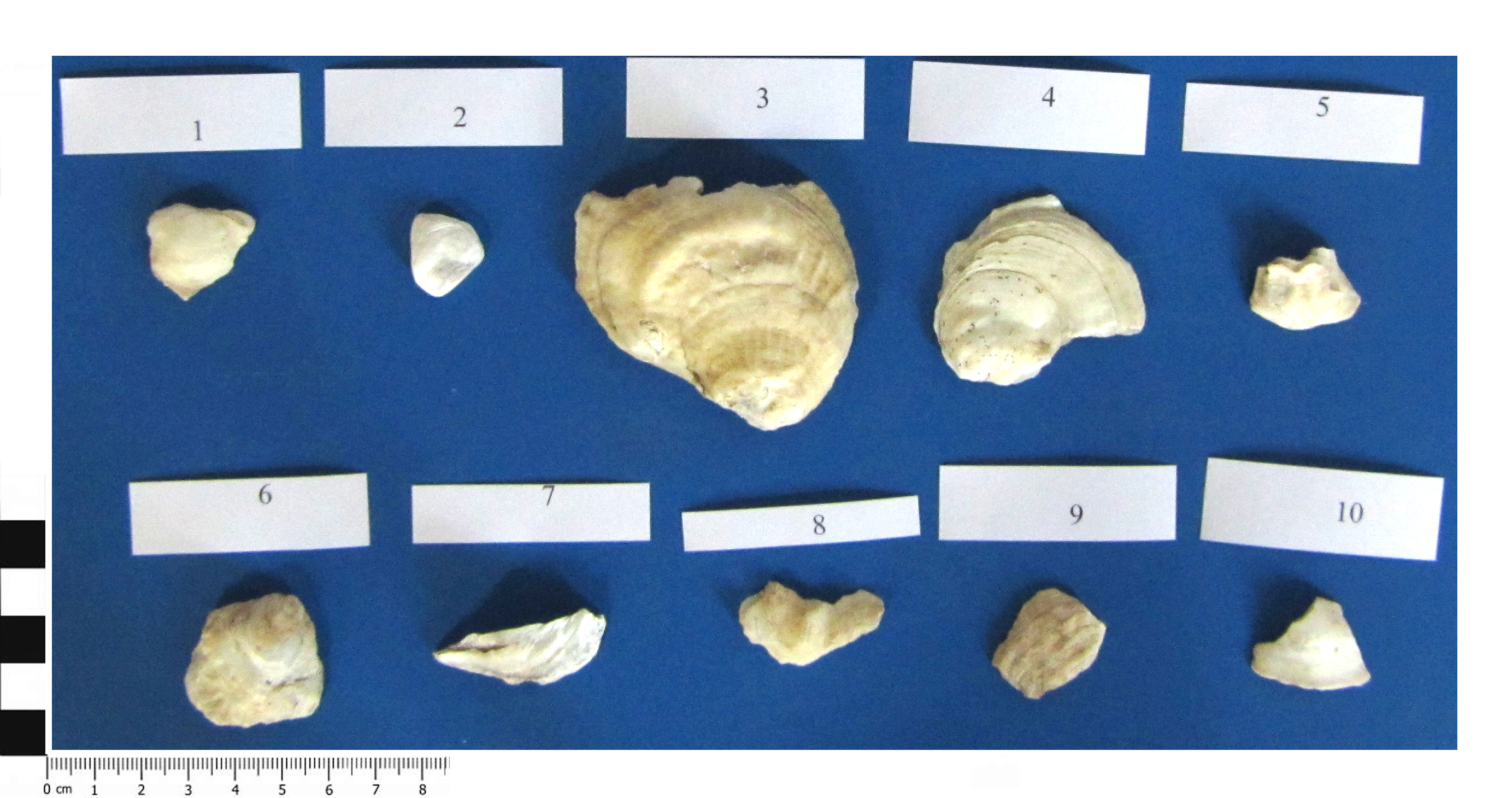 A collection of animal remains comprising twenty four oyster shells, three cockle shells, two mussel shells and two whelk shells. These probably represent a midden site but are themselves impossible to date. The site is near Ferrybridge Henge, a Roman fort, a reputed holy well and a 1960s rubbish dump so is likely to be a multi-period site.